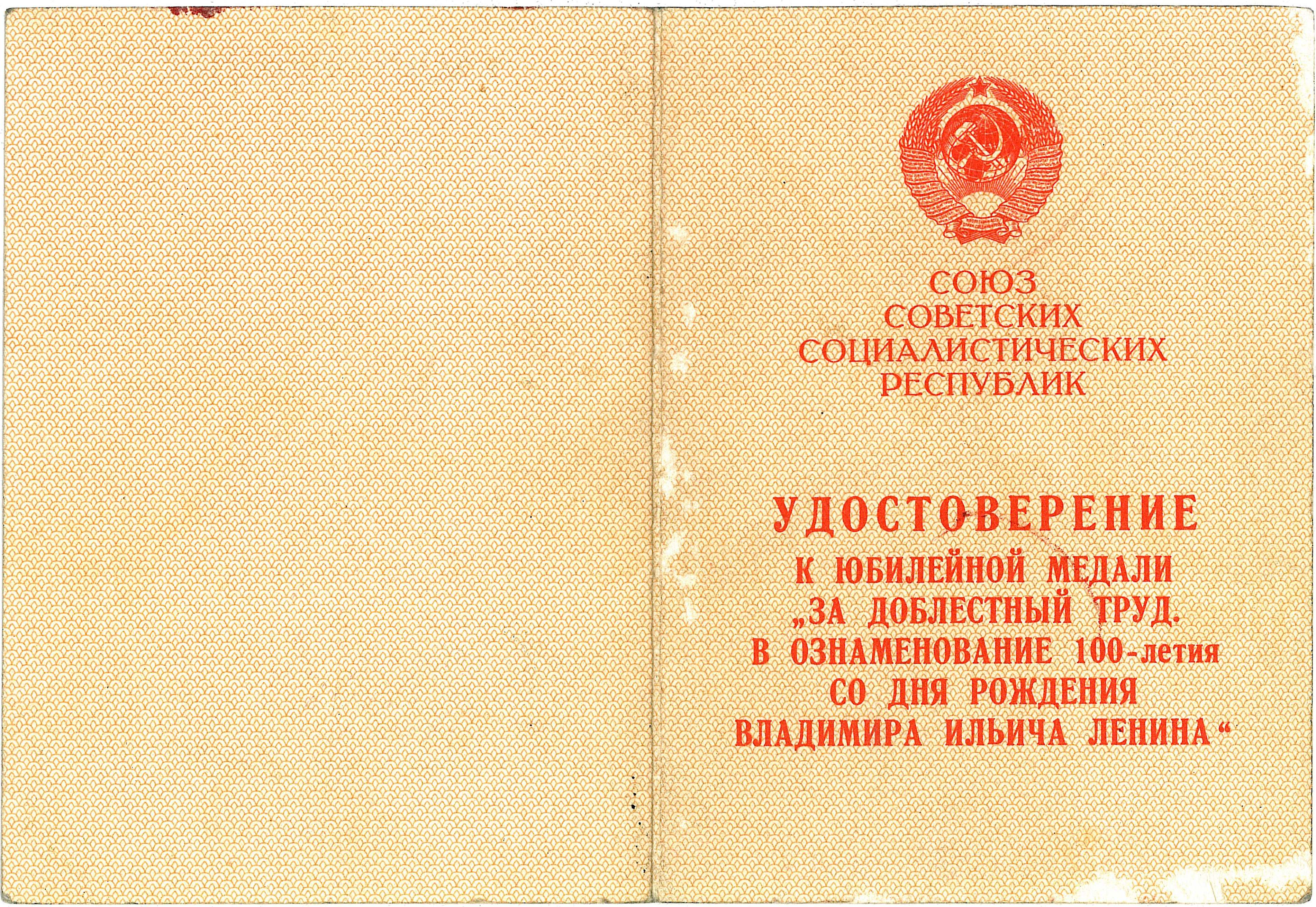 Award document for the Jubilee Medal "For Valiant Labour in Commemoration of the 100th Anniversary since the Birth of Vladimir Il'ich Lenin"